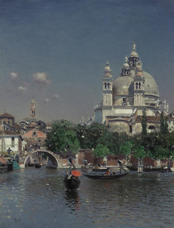 Venetian Lagoon Near the Church of Santa Maria della Salute